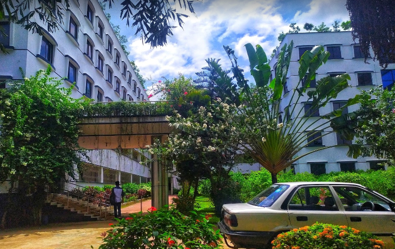 Inside of City University Permanent Campus. Its green and natural Campus.